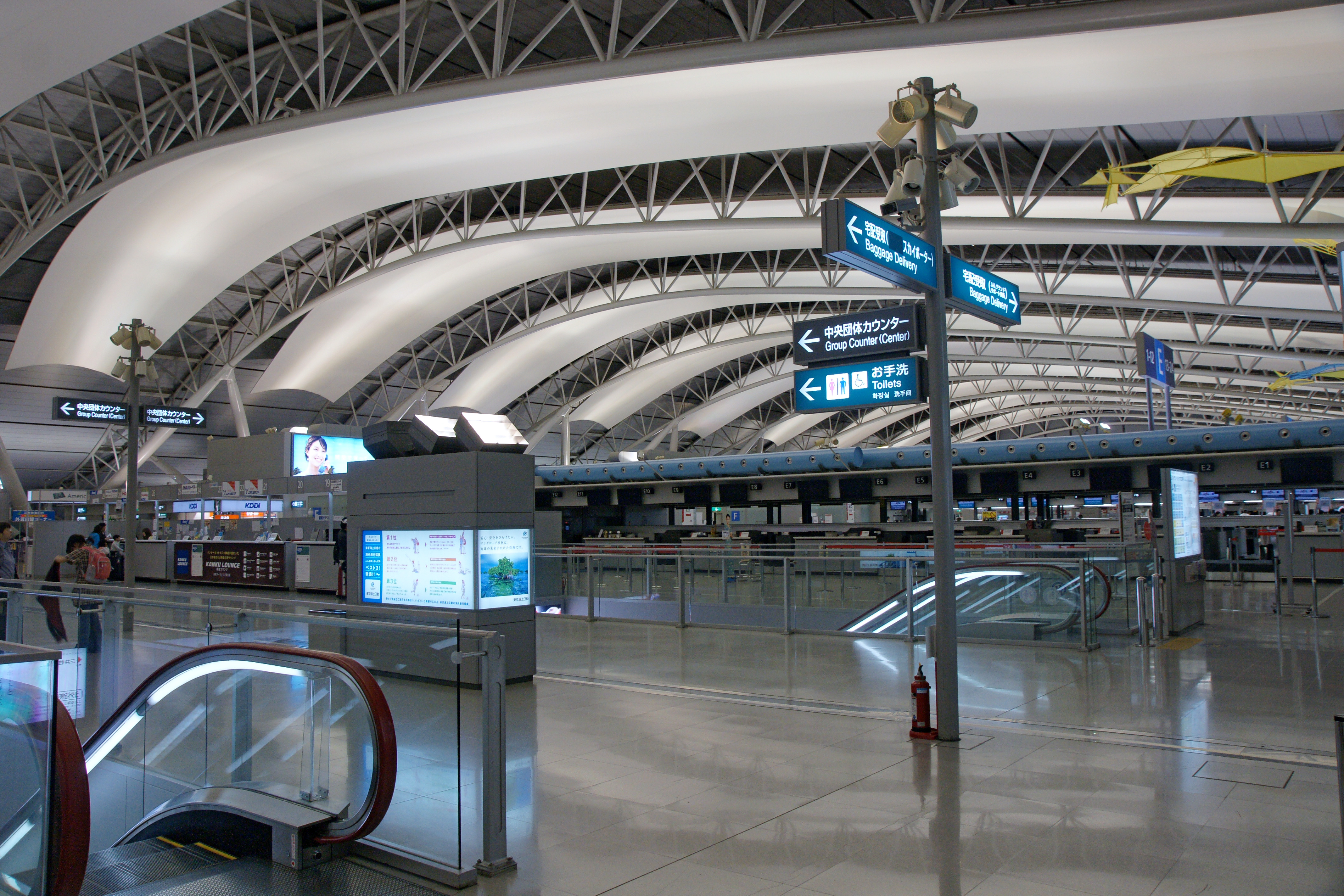 Kansai International Airport, Izumisano, Osaka prefecture, Japan